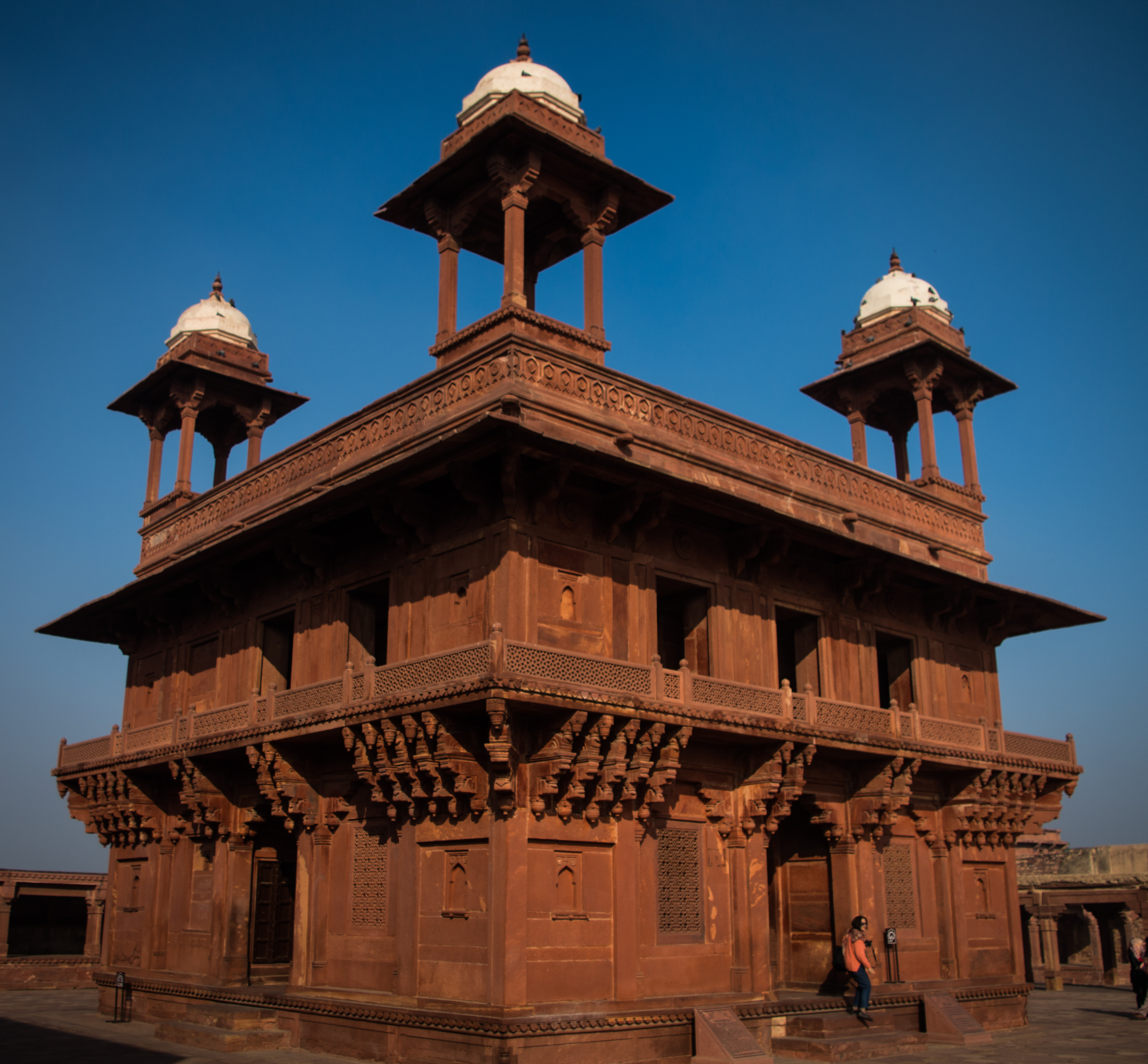 The royal hall of private audience build by emperor Akbar at Fatehpur Sikri, India